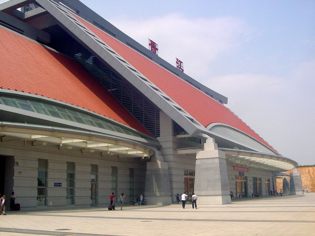 Jinjiang Station Building in Jinjiang City, Fujian